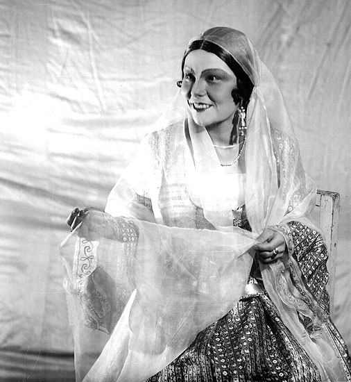 Azerbaijani actress Aliya Terequlova playing a role of Asya ("Arshin mal alan" operette)